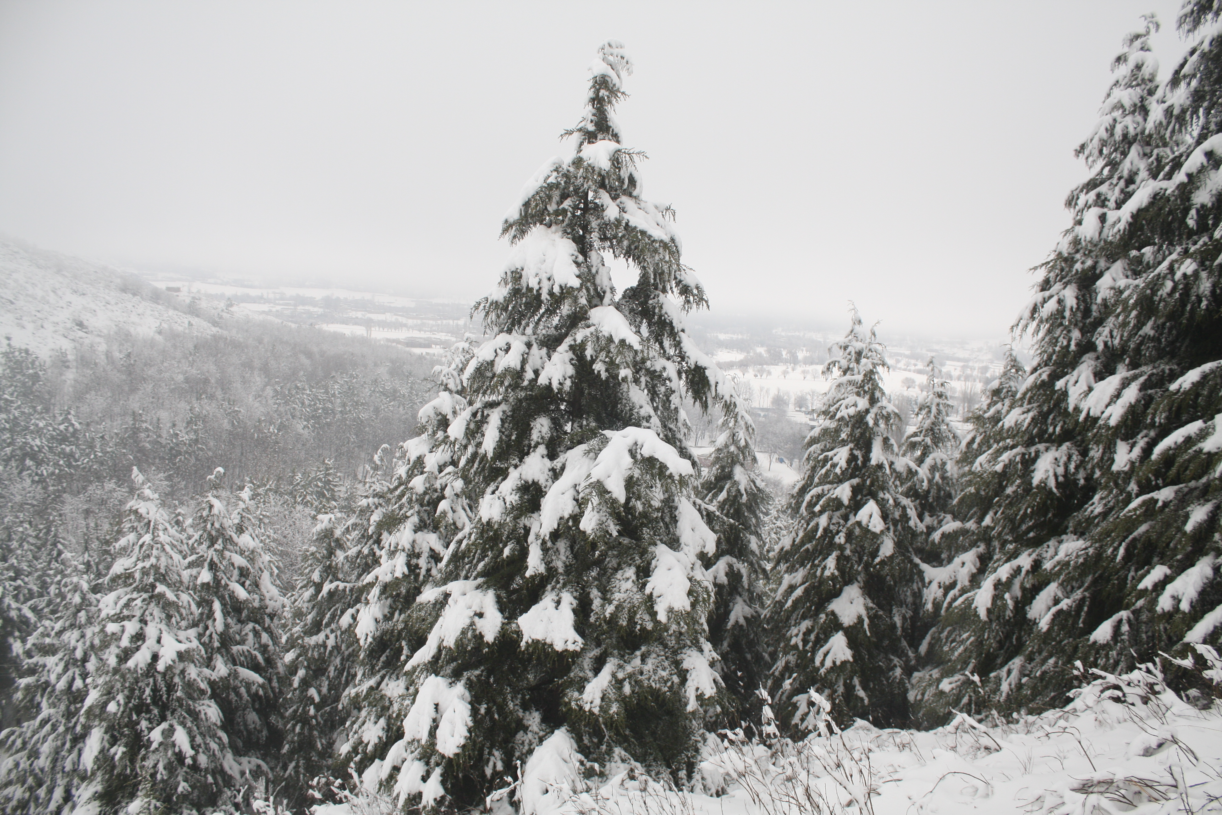 Orakzai Agency in North Waziristan